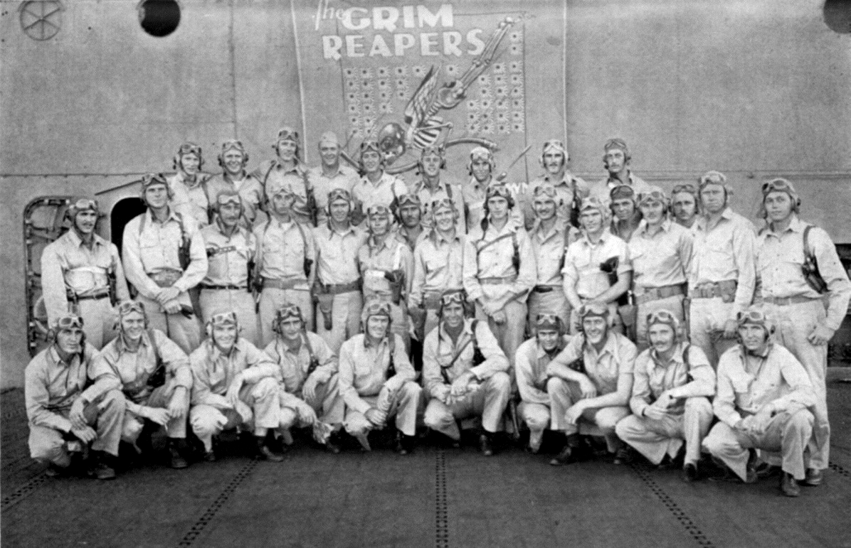 U.S. Navy pilots of Fighting Squadron 10 (VF-10) "Grim Reapers" aboard the aircraft carrier USS Enterprise (CV-6) off Guadalcanal, in 1942 or early 1943. Squadron commanding officer LCDR Jimmy Flatley kneels in front, fifth from the left. ENS Whitey Feightner is also in front, second from the left. LT JG Butch Voris, founder of the "Blue Angels" aerobatics team, is second from the left, second row. LT Stanley "Swede" Vejtasa is second from the right in the second row. LT Mac Kilpatrick is first on the left in the back row behind Voris. Flatley commanded VF-10 until 13 February 1943 when he was relieved by LCDR William R. "Killer" Kane. VF-10 was assigned to the Big E from 16 October 1942 to 10 May 1943.